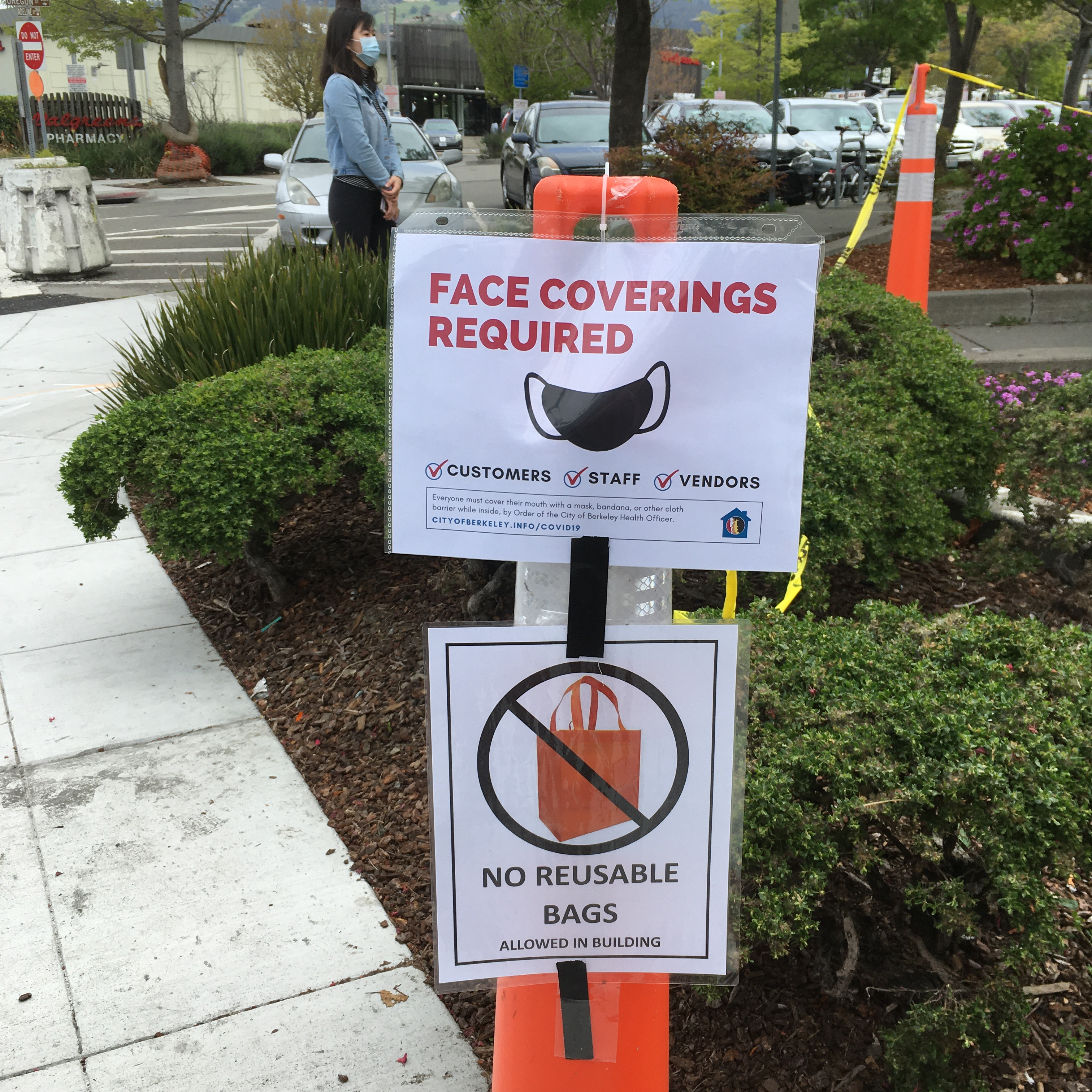 Signs outside the Berkeley Bowl grocery store in Berkley, California requiring face coverings and banning reusable bags